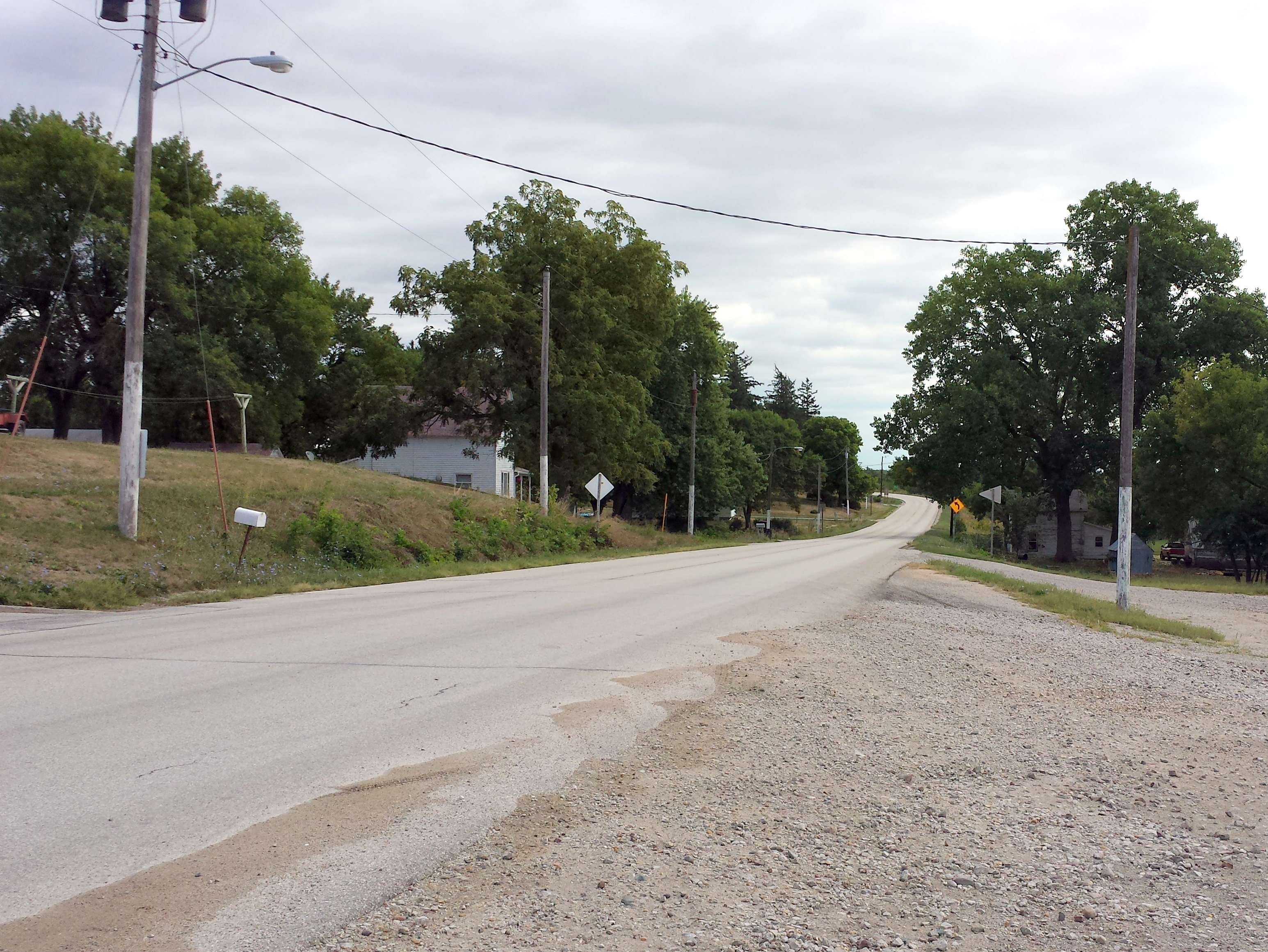 The White Pole Road, formerly US 6 and Iowa 925, as it is in Casey.